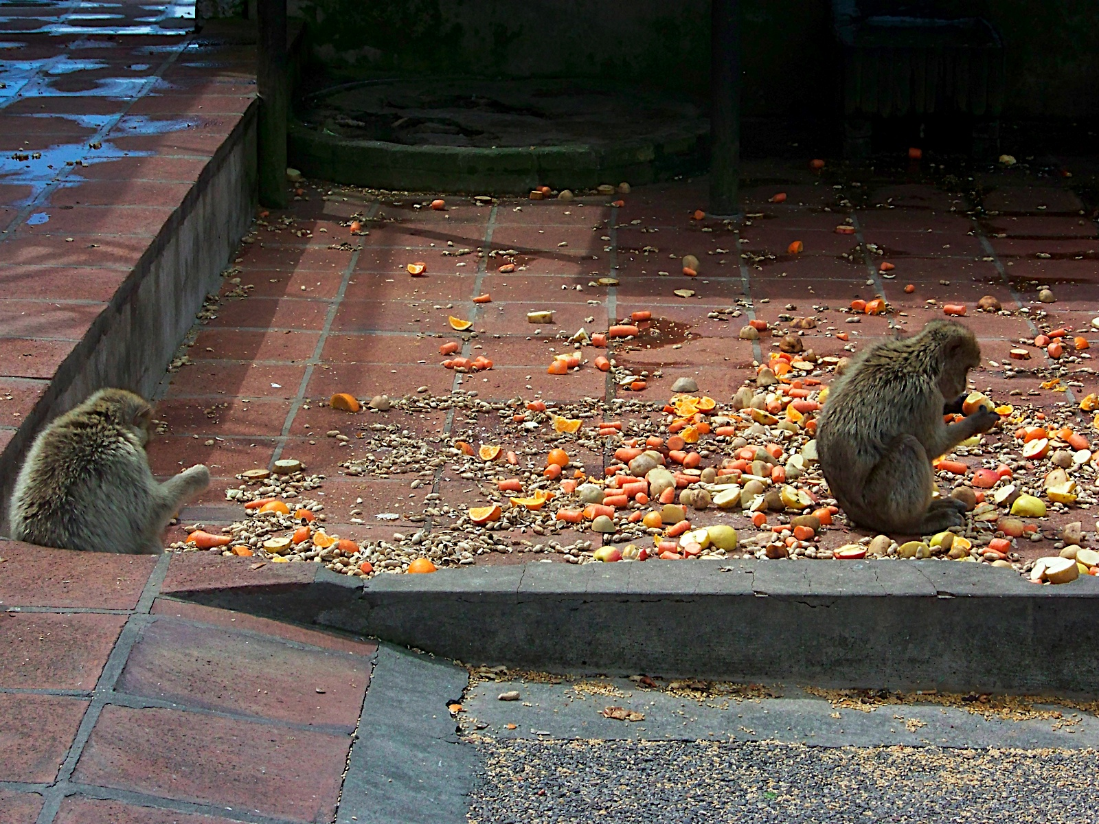 Barbary Macaques feeding in the Upper Rock Nature Reserve, Gibraltar.